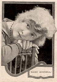 Cover picture of the actress Daisy Burrell (born 1893)